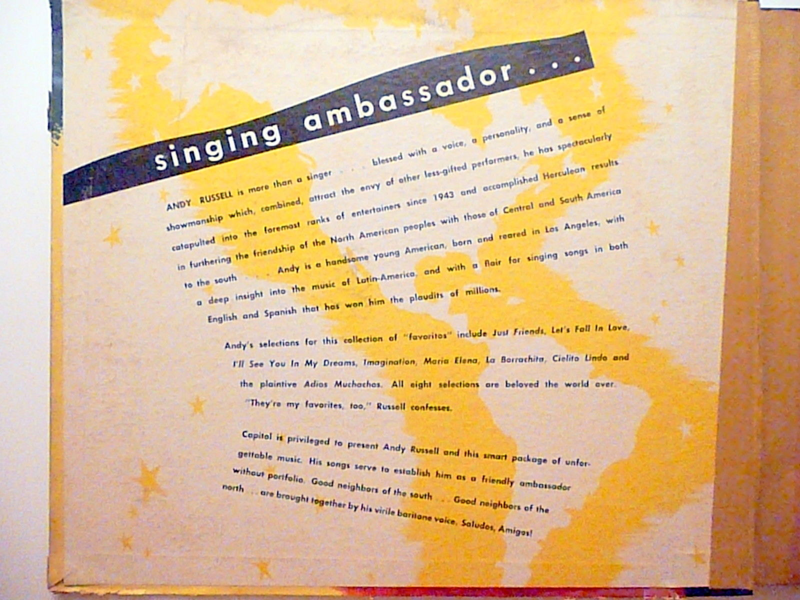 Andy Russell LP Favoritos (Singing Ambassador sleeve) by Capitol Records, 1943